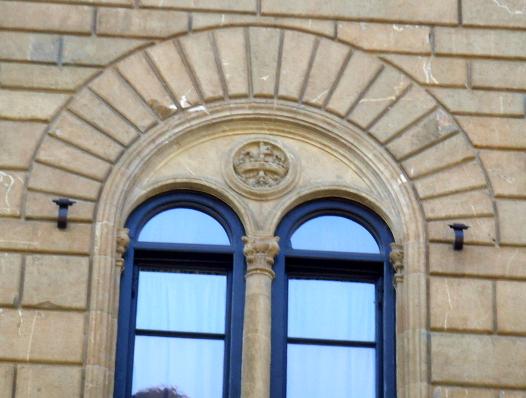 Coat of arms of the House of Riccardi, on a bifora of Palazzo Medici Riccardi in Florence, Italy.